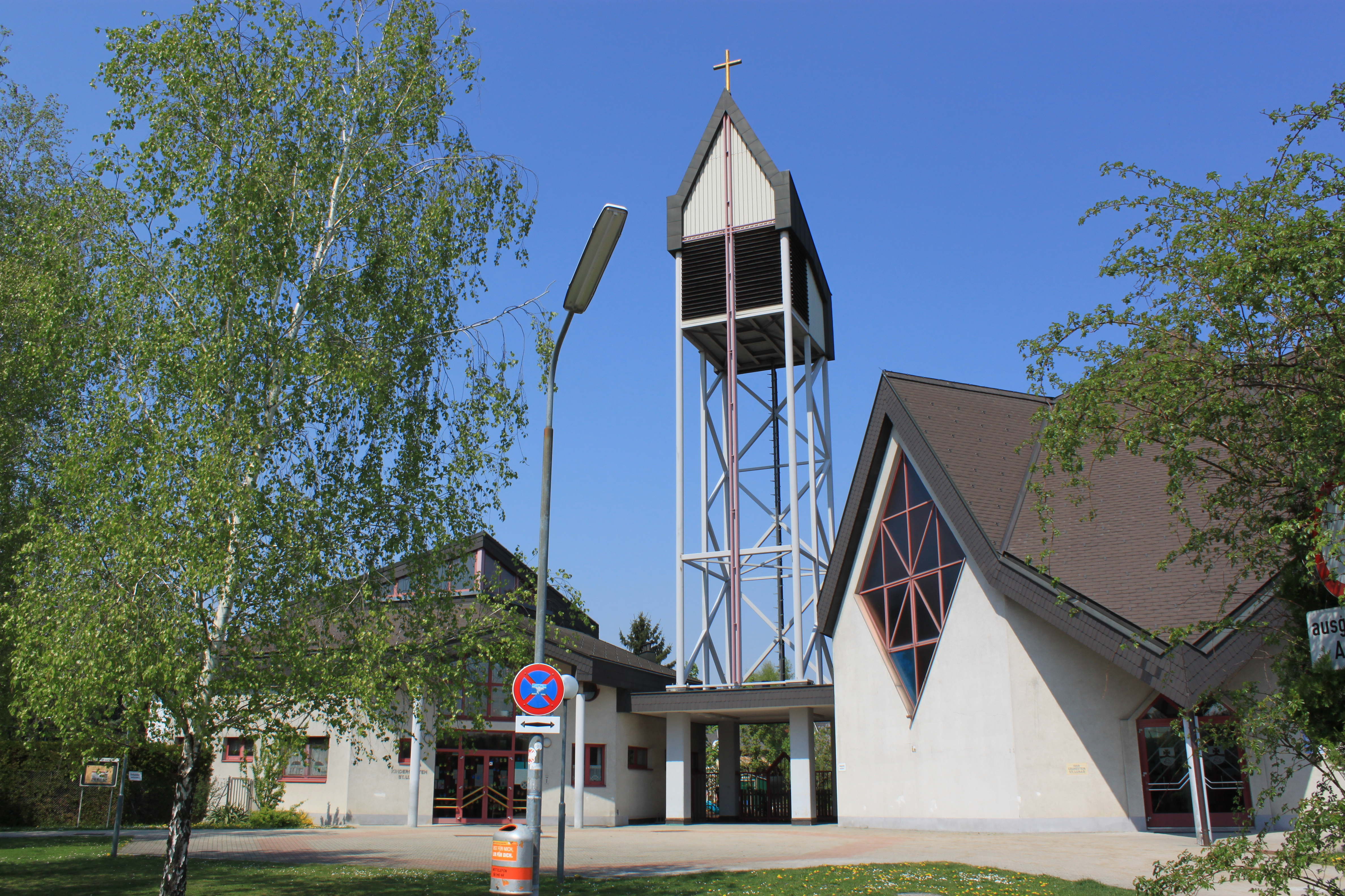 Parish church of St. Luke in the 11th district of Vienna